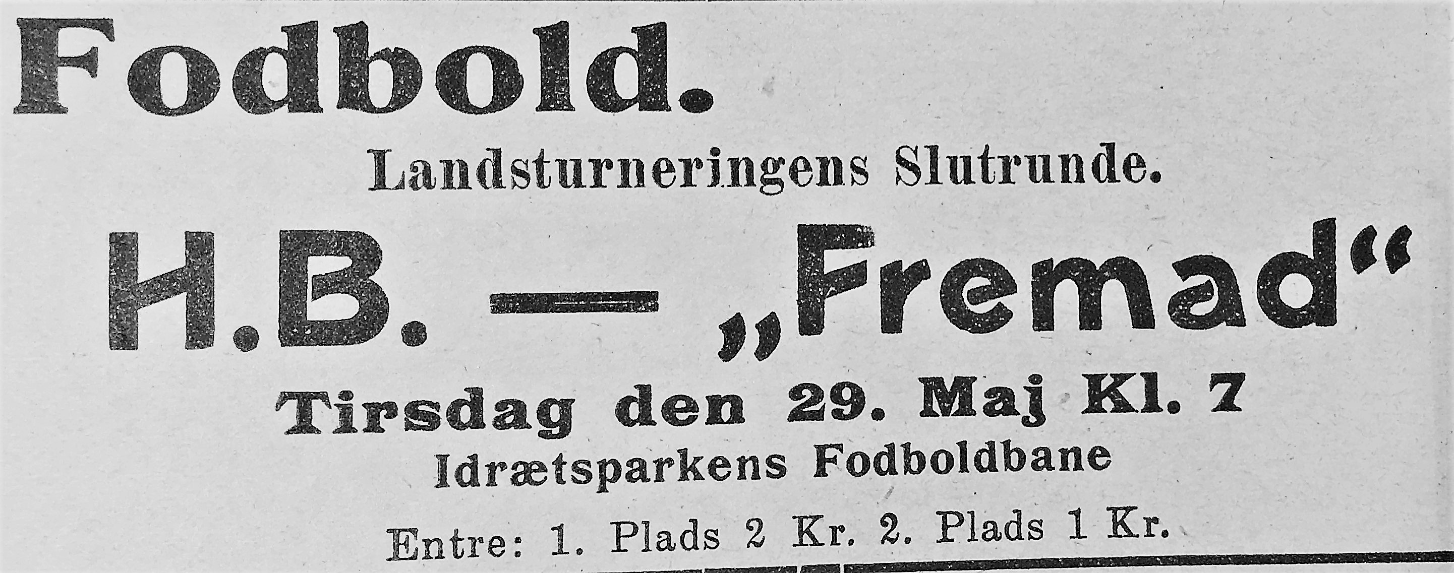 Advertisement for the an association football match in the 1927–28 Danmarksmesterskabsturneringen - Fodbold. ; Landsturneringens Slutrunde. ; H.B. — „Fremad“ ; Tirsdag den 29. Maj Kl. 7 ; Idrætsparkens Fodboldbane ; Entre: 1. Plads 2 Kr. 2. Plads 1 Kr.